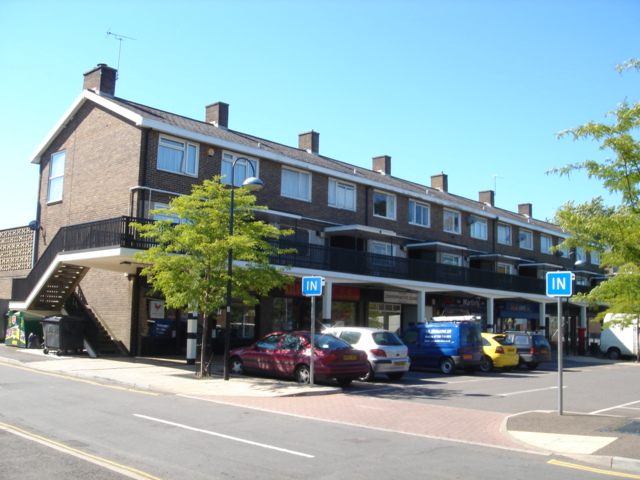 Parade of shops in Southgate, Crawley. Photographed on 4th August 2007.